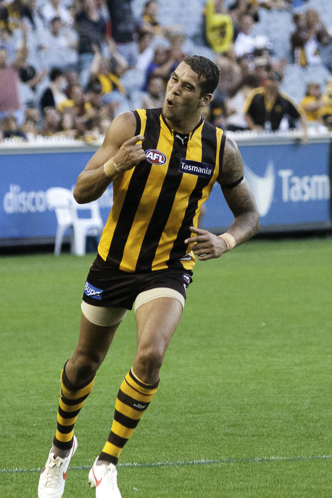 Lance Franklin celebrates after kicking a goal against Adelaide in round 3 of the 2012 AFL season.